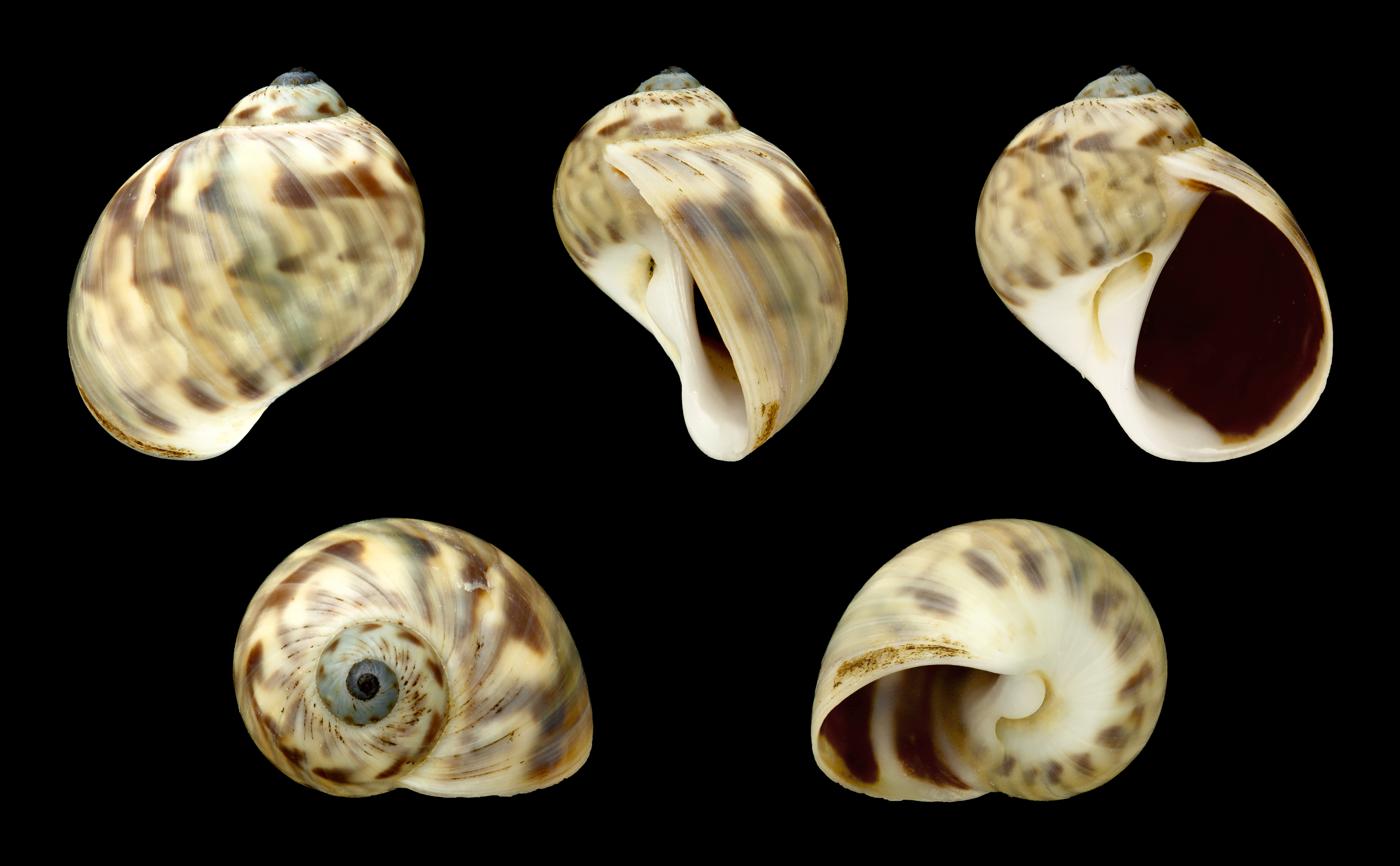 Diameter 1.3 cm; Originating from the Pacific coast of Mexico; Shell of own collection, therefore not geocoded.